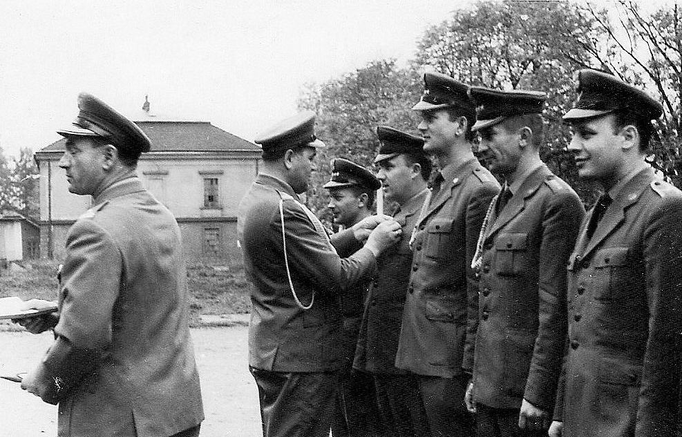 Border Protection Forces in Cieszyn.